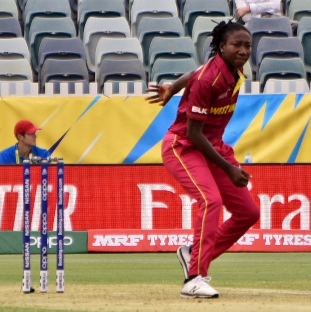 Stafanie Taylor bowling for the West Indies against Thailand during their 2020 ICC Women's T20 World Cup match at the WACA Ground in Perth, Australia